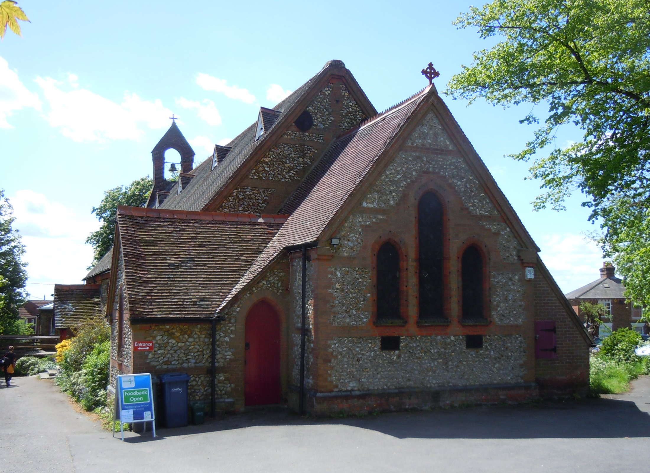 St Mark's Church, Alma Road, Heath End, Farnham, Borough of Waverley, Surrey, England.